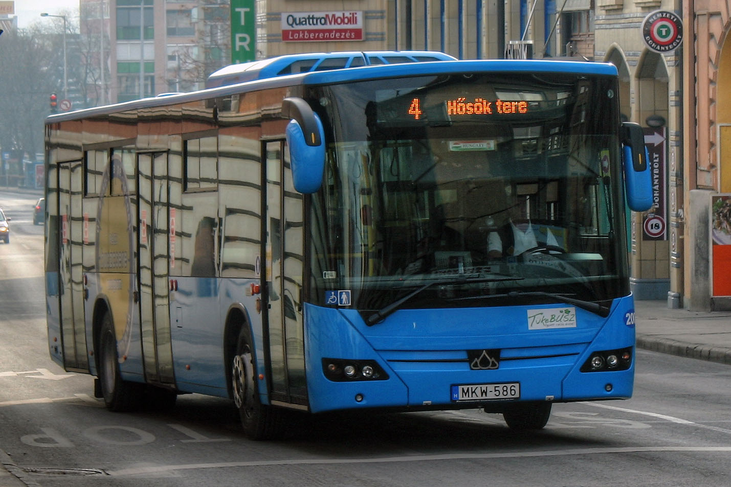 Credo Citadell bus in Pécs, number 4